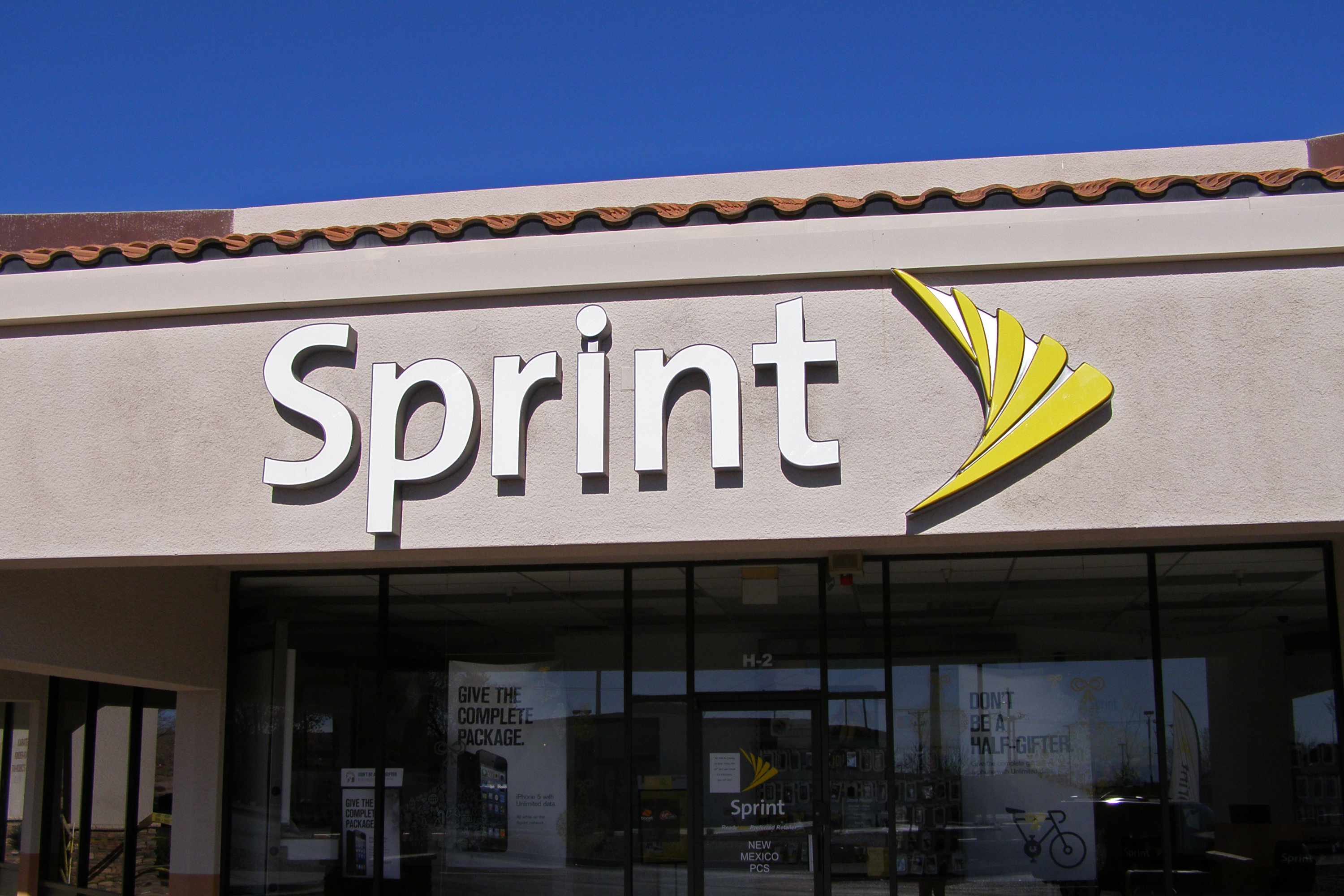 Frontage of a Sprint retail store, New Mexico